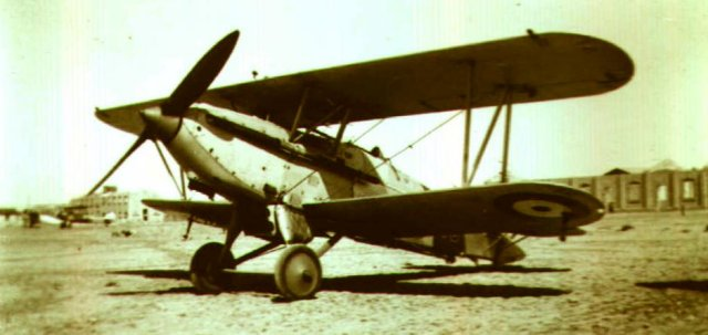 Hawker Nimrod at El Amriya, 1936 Credited as Air Ministry (A & EE) therefore Crown Copyright - now expired because of date.